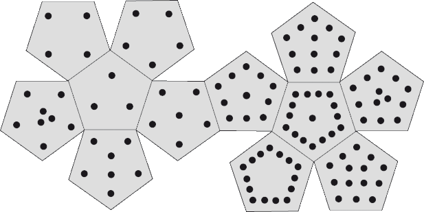 nontransitive dodecahedron D VIII